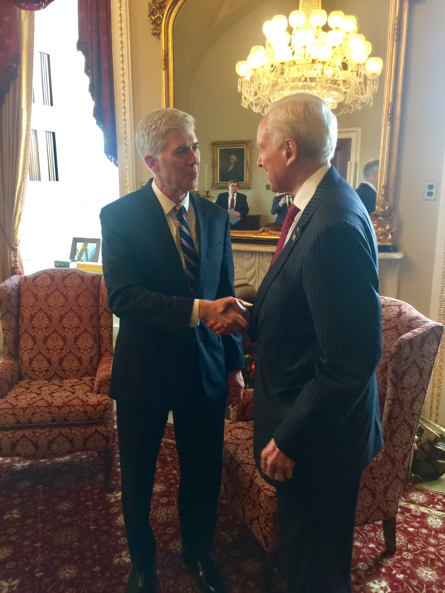 If there is one man capable of filling the big shoes left by the late Justice Scalia, it is Neil Gorsuch. #utpol #SCOTUS